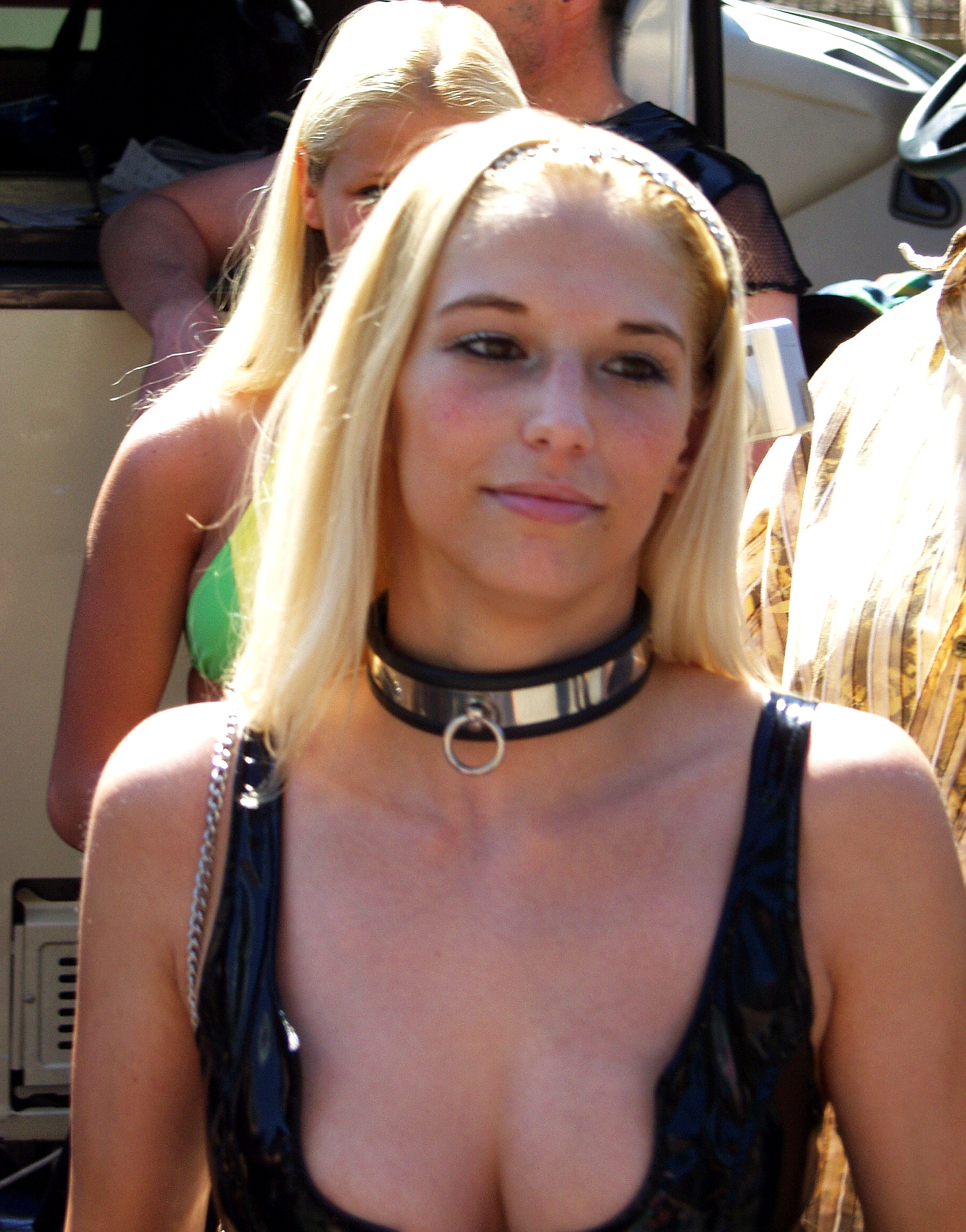 Members of the Christopher Street Day demonstration - ColognePride 2006